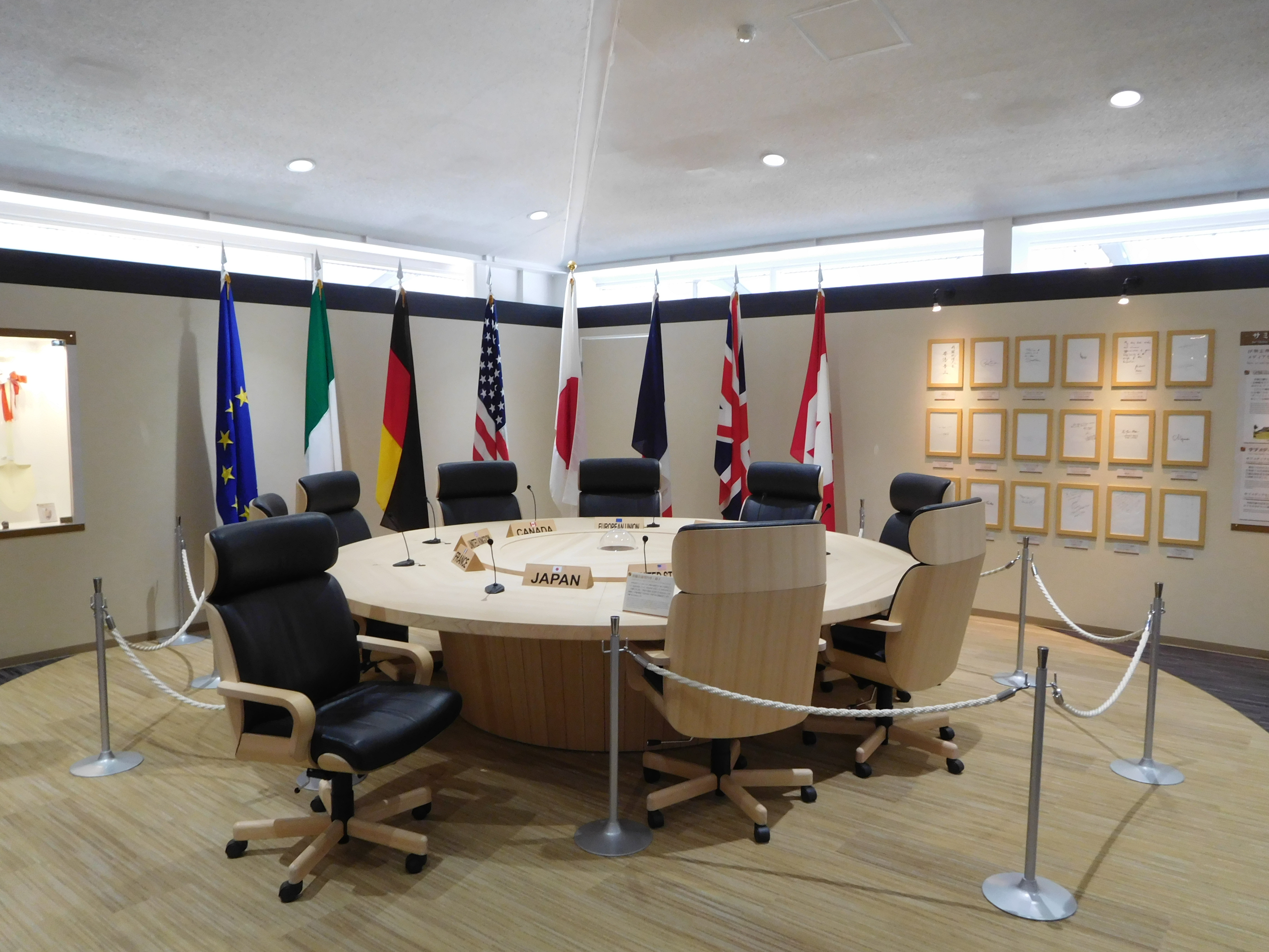 This is the round table and chairs in Ise-Shima Summit Memorial Museum "SumMiel", which is located in Shima, Mie, Japan. These chairs and the table were used at 42nd G7 Summit.